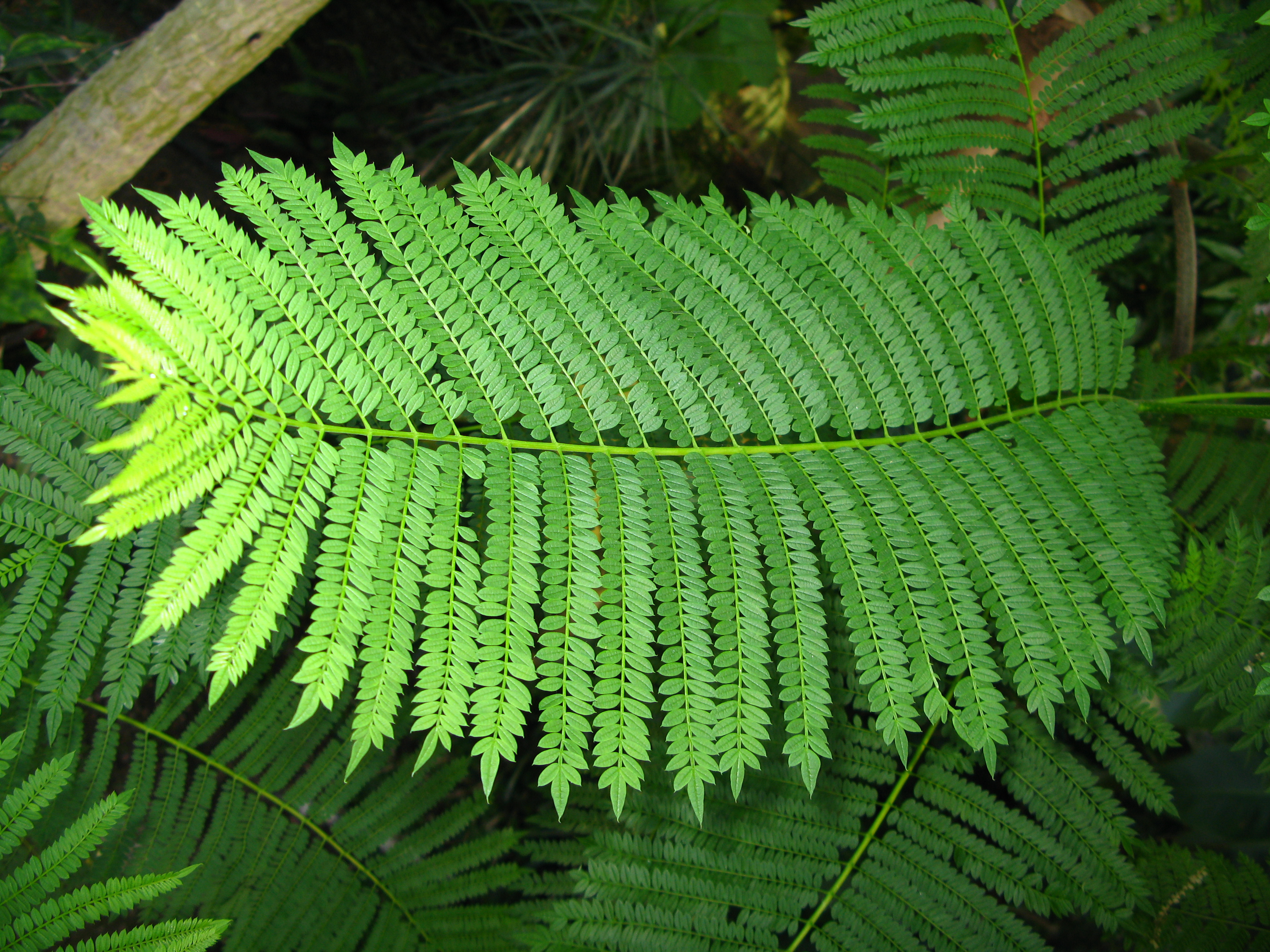 Leafs of Jacaranda mimosifolia (under glass) in PAN Botanical Garden in Warsaw